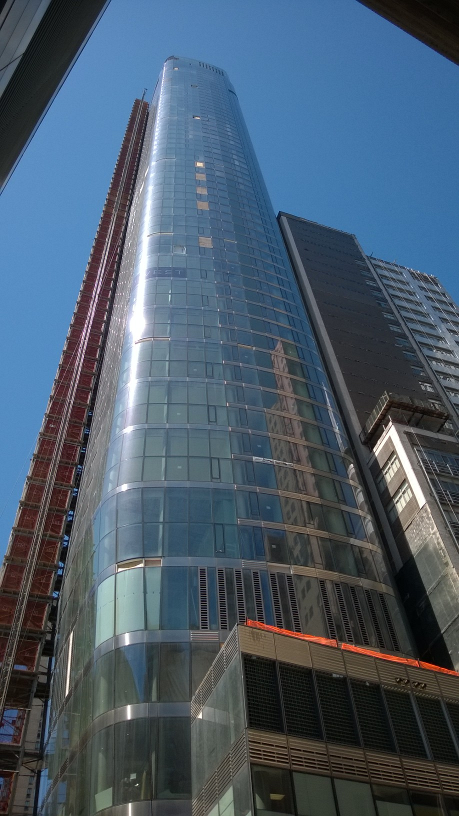 Exterior glass cladding of 50 West Street.